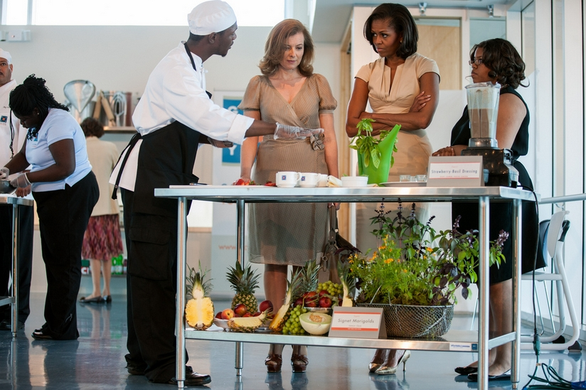 First Lady Michelle Obama and Valérie Trierweiler of France, center, watch a student cooking demonstration at the Gary Comer Youth Center in Chicago, Ill., May 20, 2012.